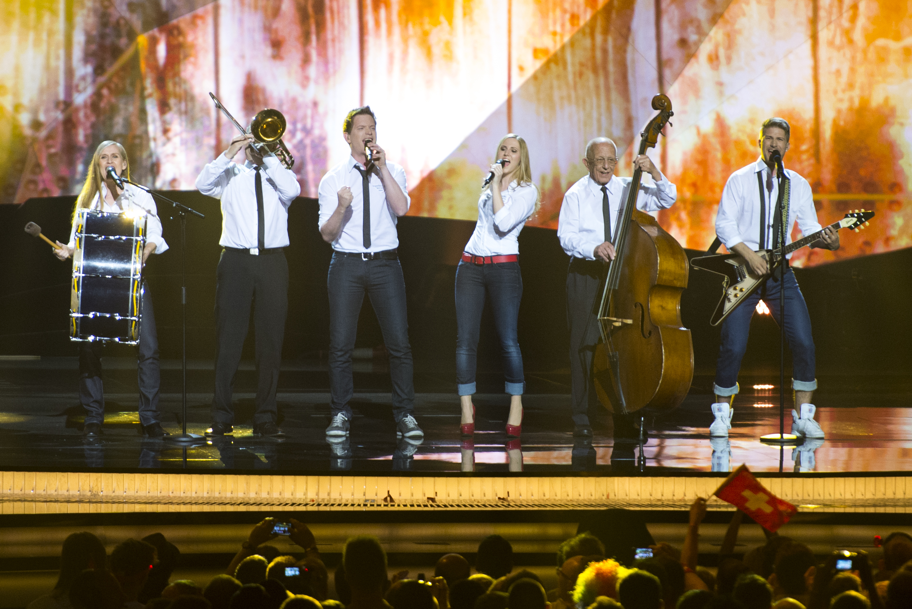 Takasa representing Switzerland with the song "You and Me" during the second dress rehearsal of the second semi final of the Eurovision Song Contest 2013 Malmö. (Help translate this text)